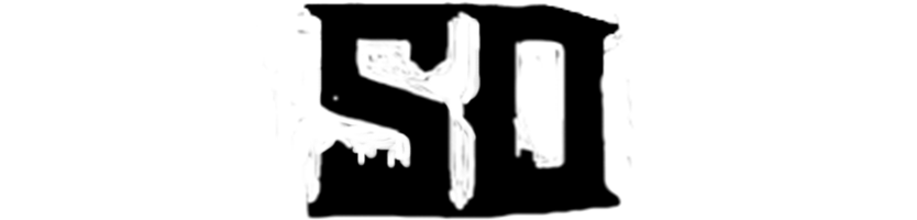 Official logo of the rapper SD